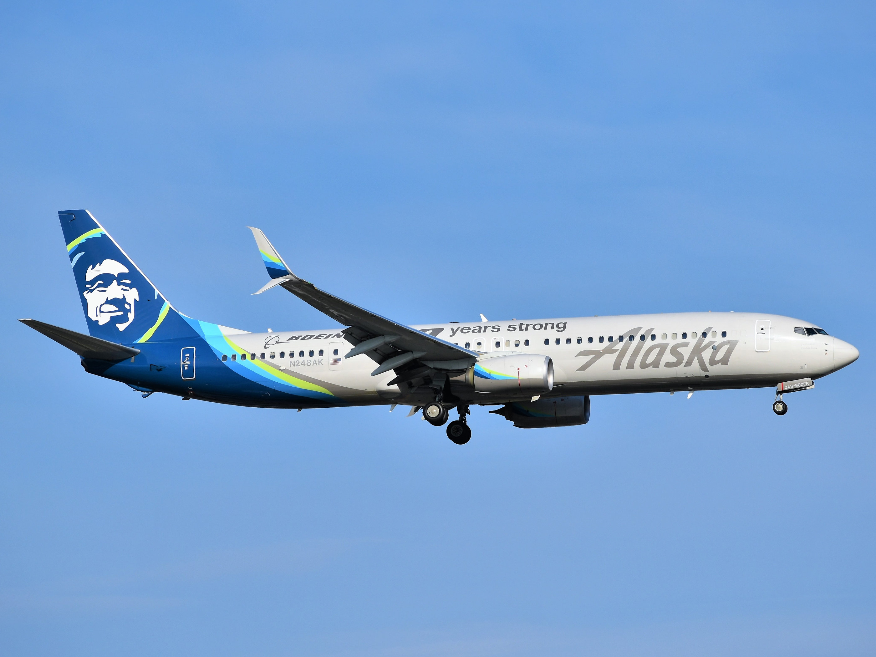 An Alaska Airlines Boeing 737-900(ER) is on final approach to Newark Liberty International Airport, passing over Interstate 78 and Port Street in the North Area.